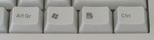 A detail of a computer keyboard showing the AltGr, Windows, Menu key and Ctrl keys.